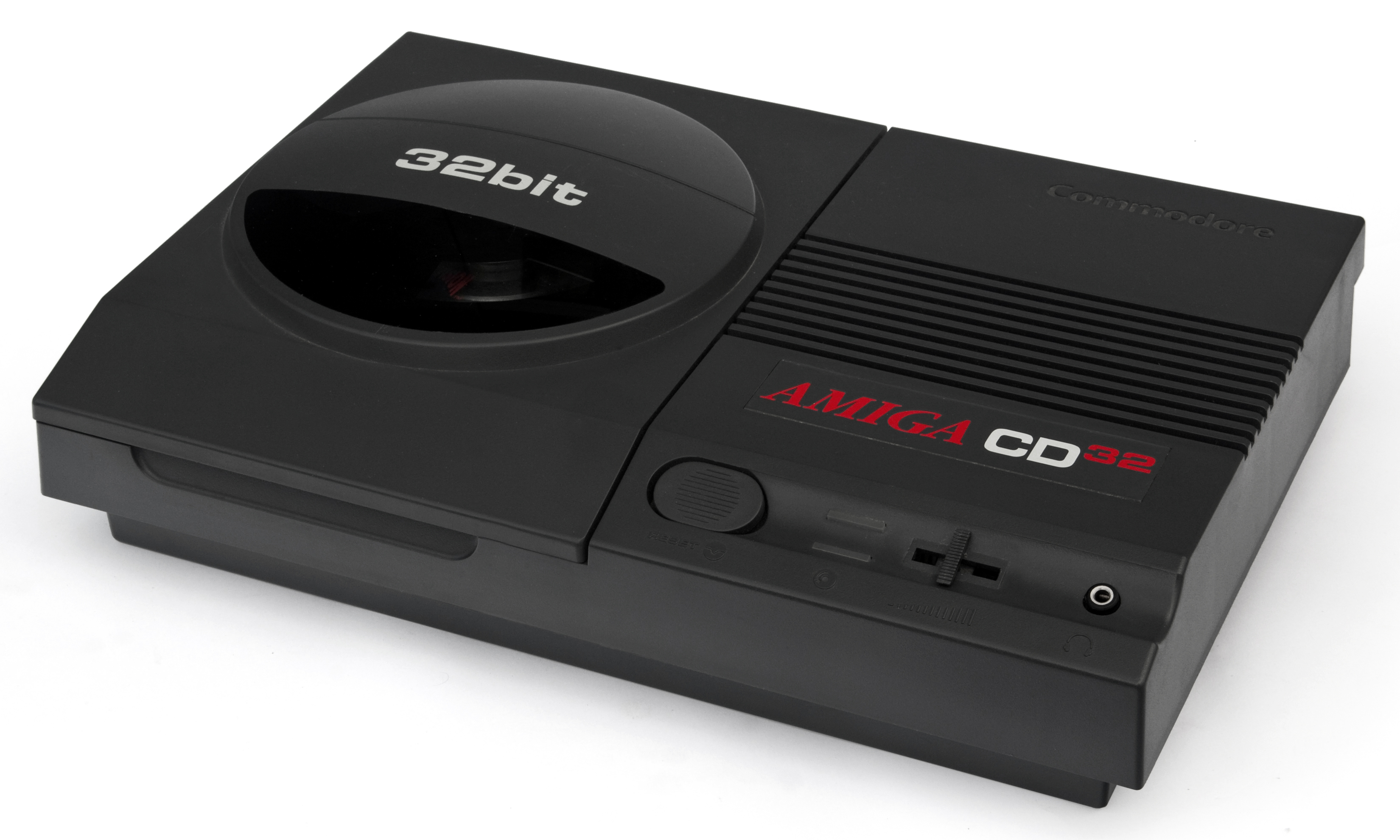 Commodore Amiga CD32 games console